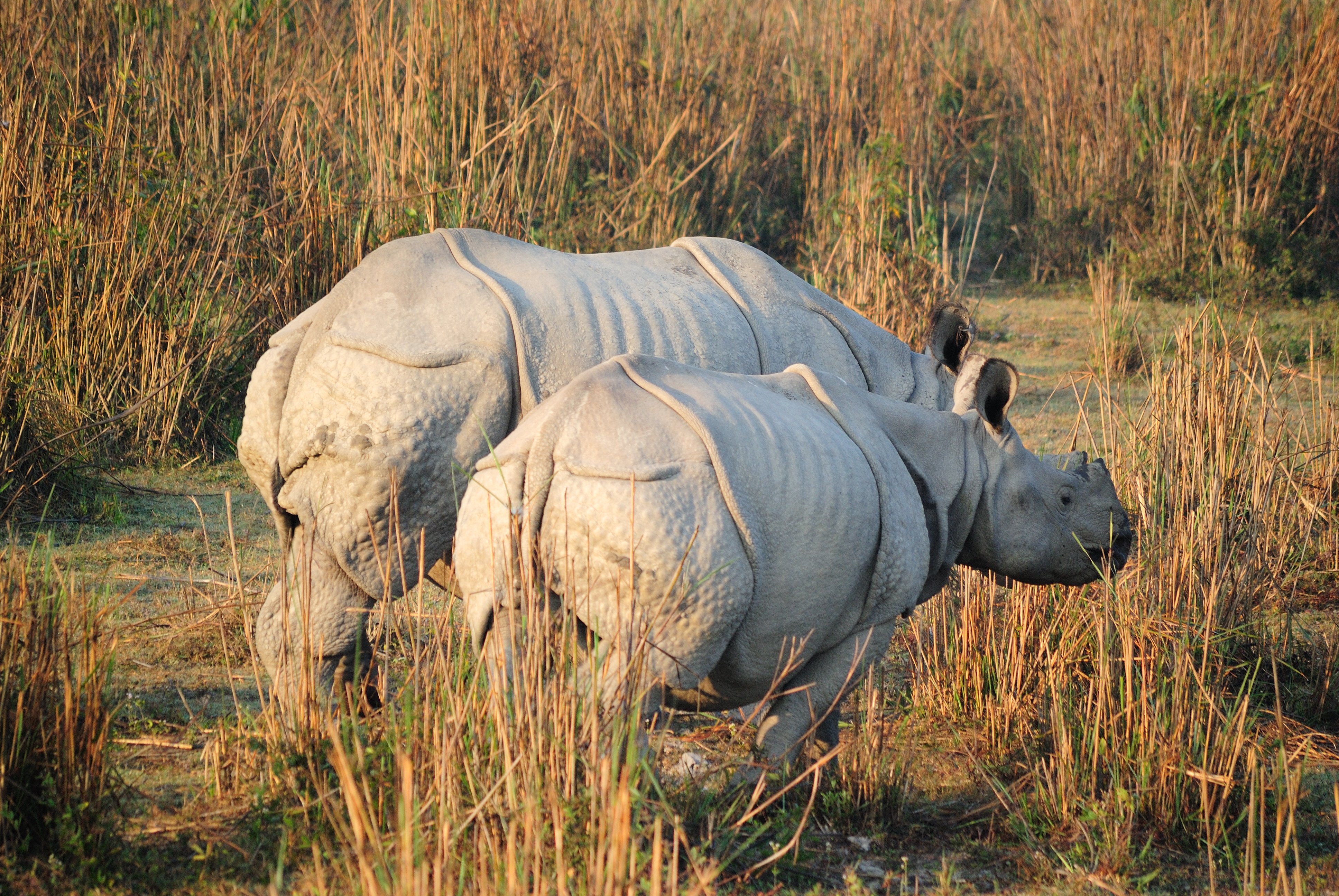 THE ONE HORN RHINO